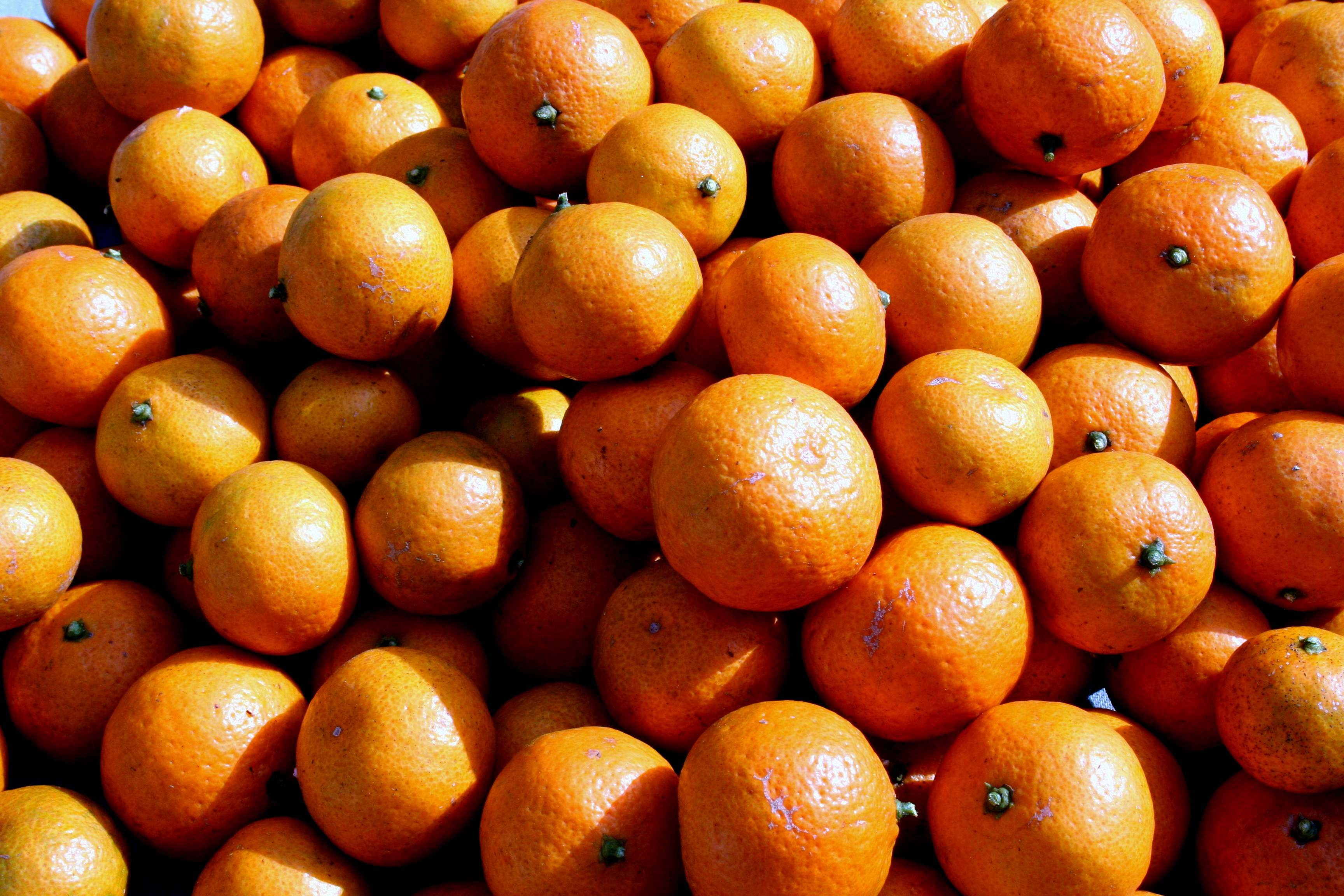 Satsuma oranges, picked on Christmas day 2007 in Gainesville, FL